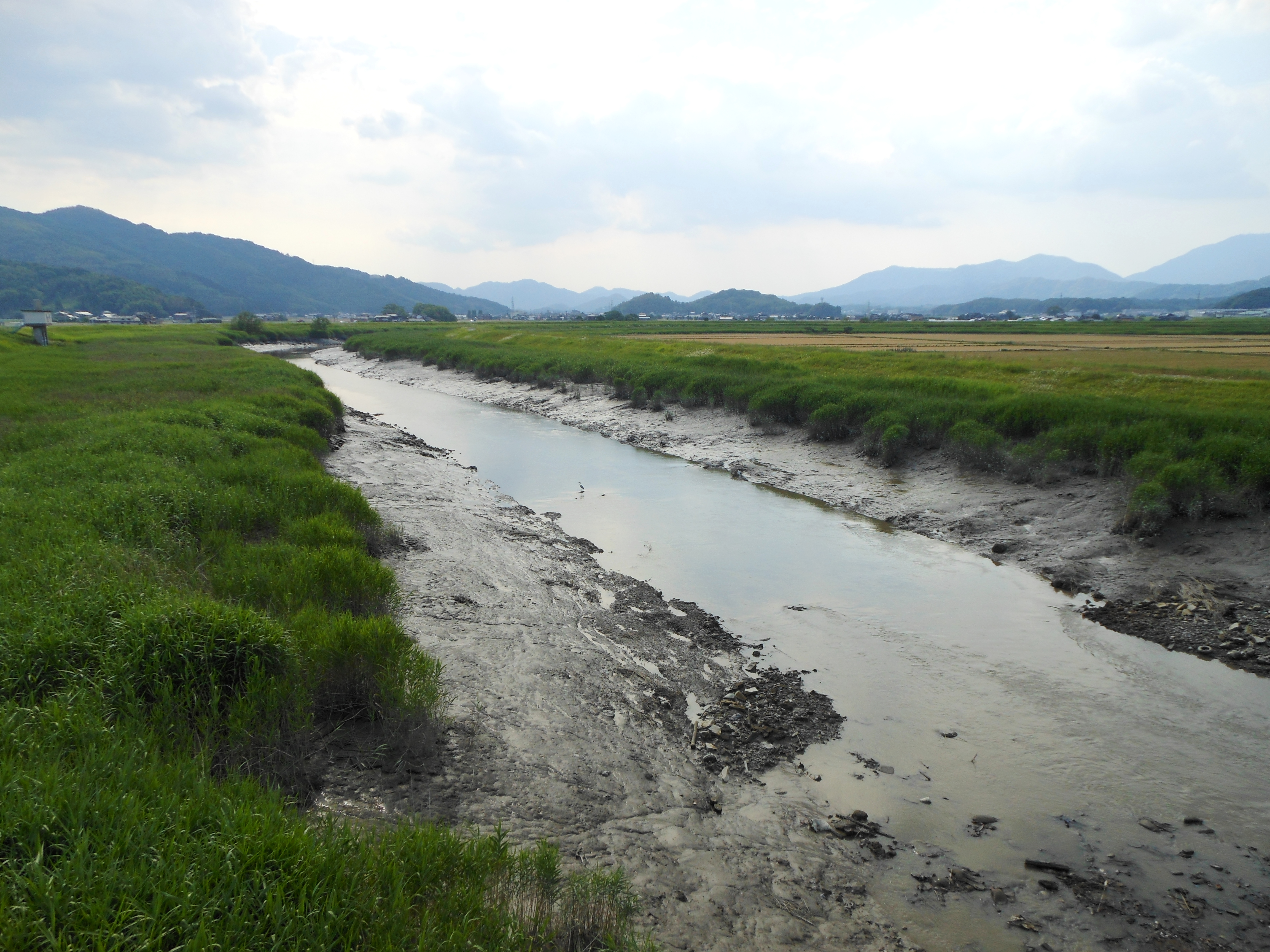 The Rokkaku River from Omachi Bridge.